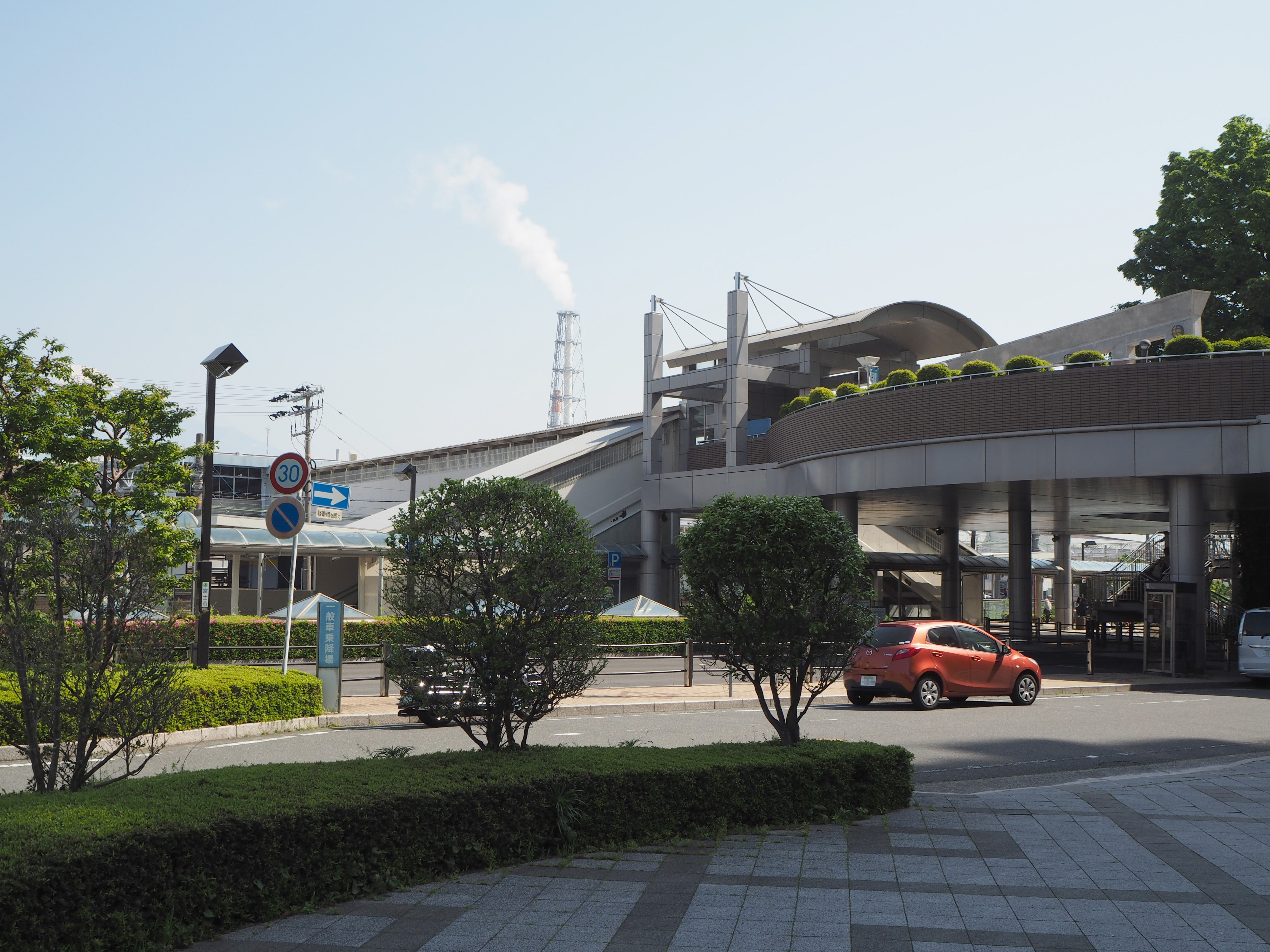 South entrance of Fuji Station